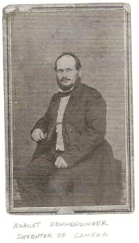 A picture of camera maker, August Semmendinger